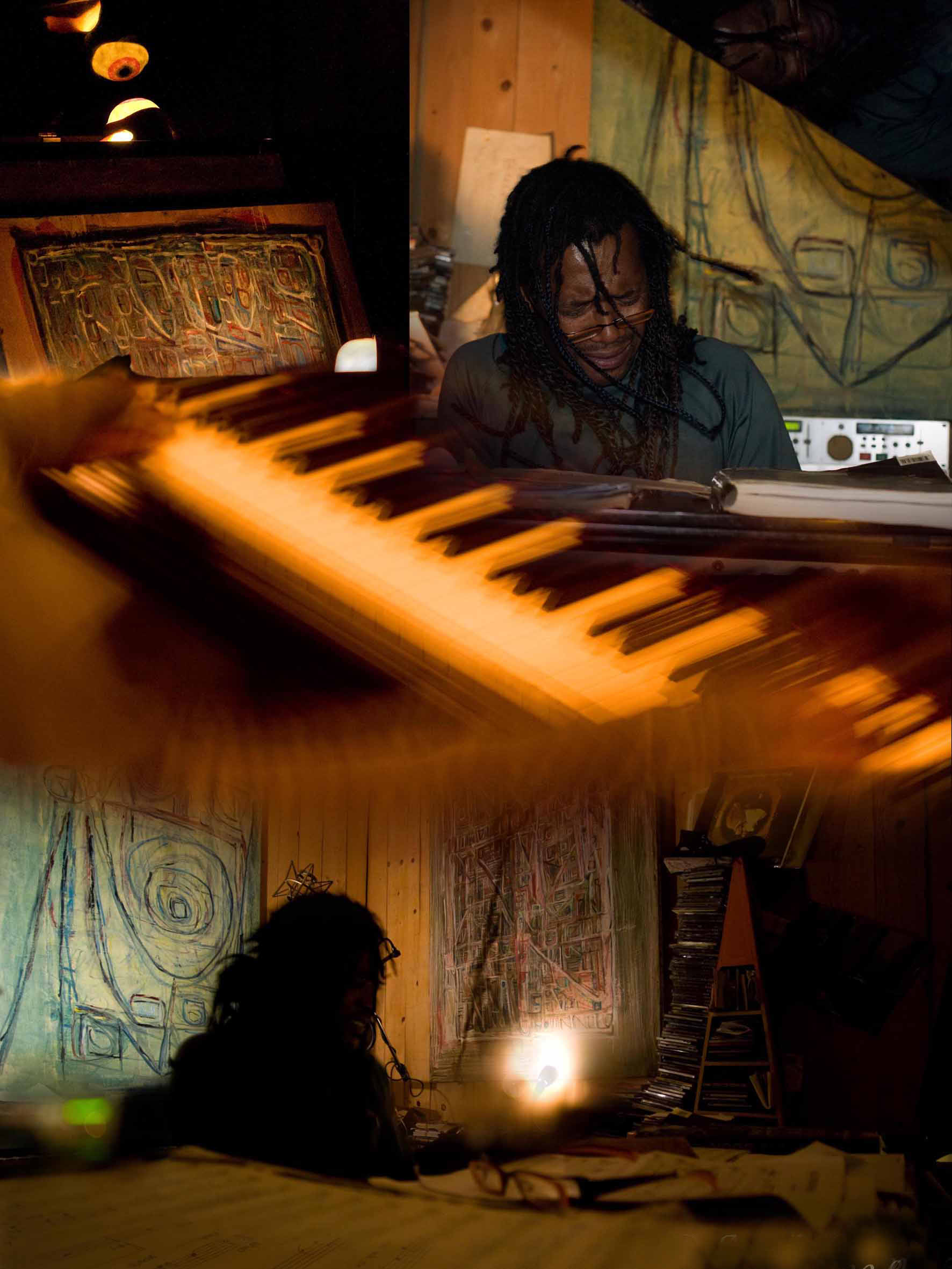 Montage Tchangodei par la photographe Anais Chaine